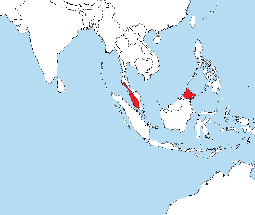 Range map for family Xenophidiidae blank map = data source: Vitt & Caldwell (2013): ”Xenophidiidae” . Herpetology. Academic Press. p. 613. ISBN 978-0-12-386919-7